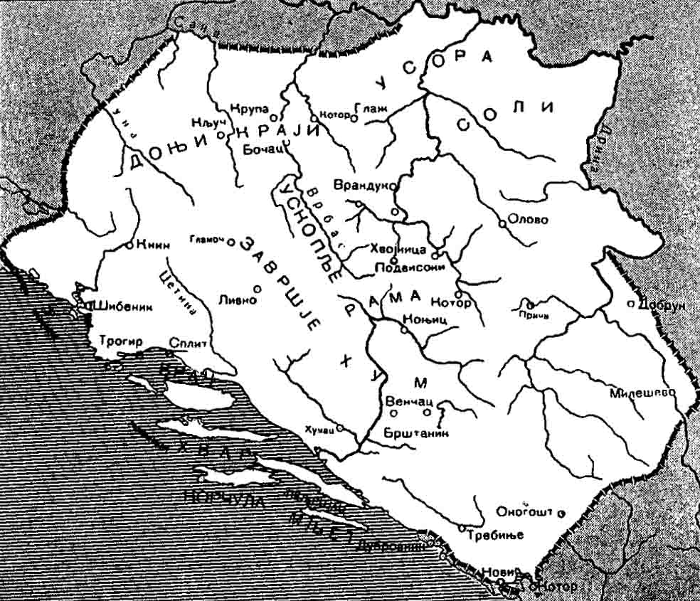 Bosnia during King Tvrtko I, V. Ćorović